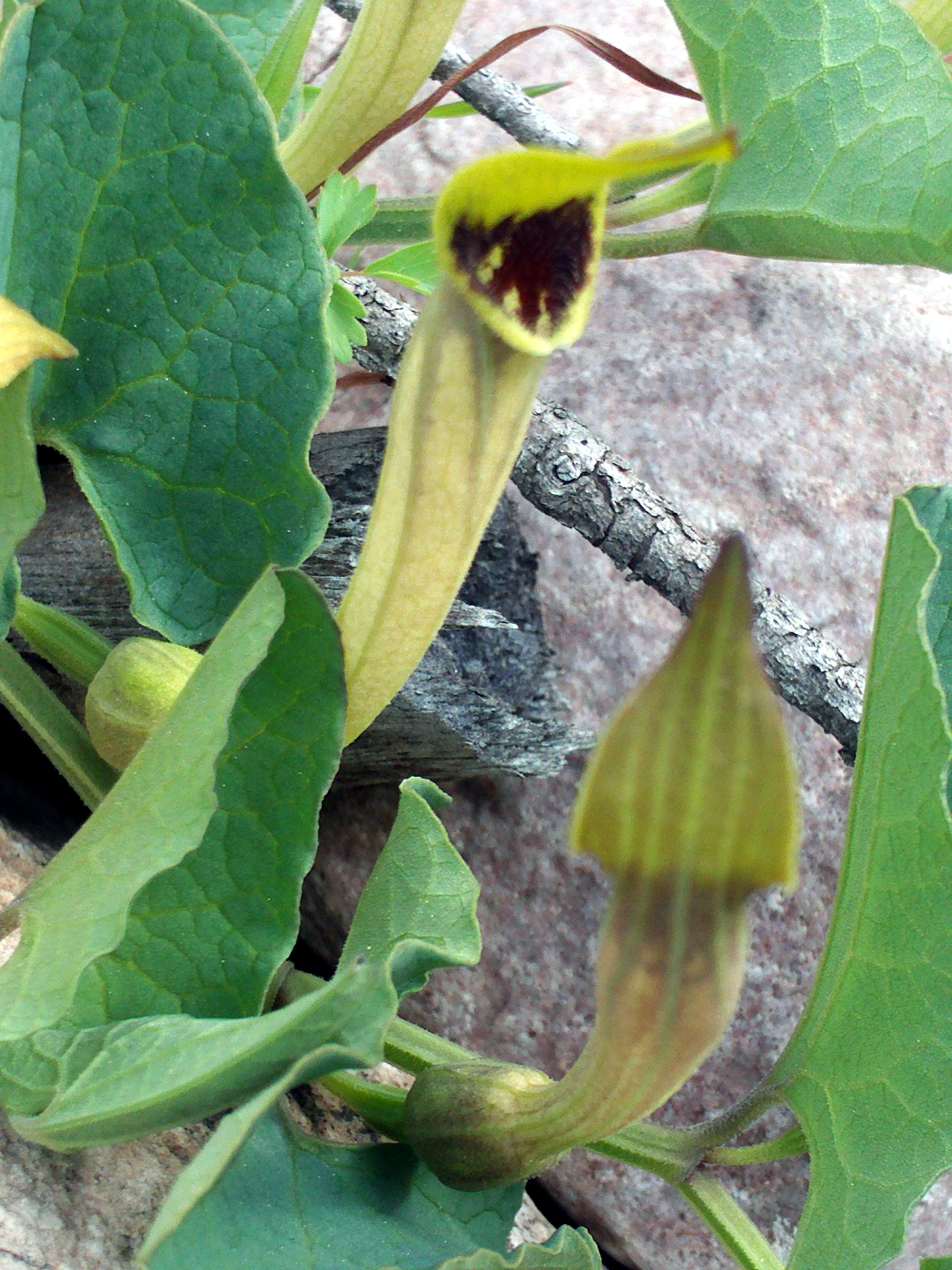 Aristolochia paucinervis flower close up, Dehesa Boyal de Puertollano, Spain